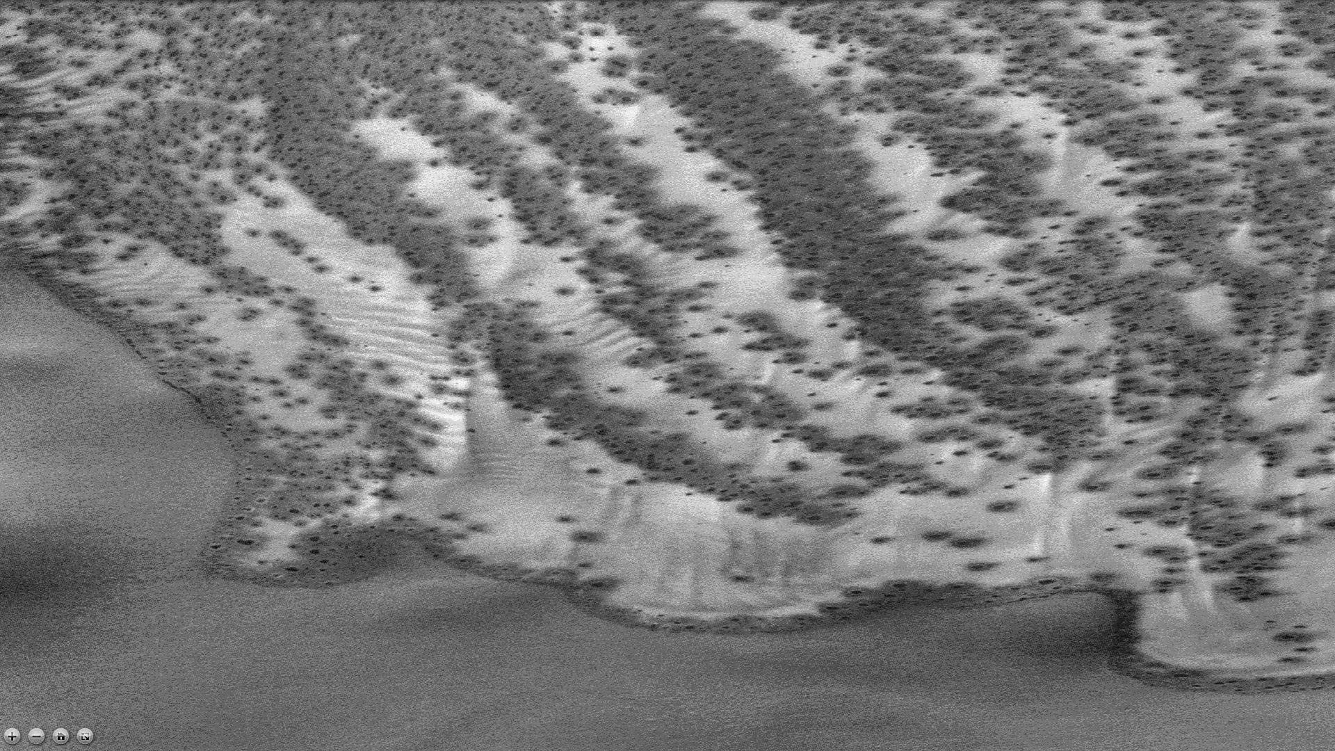 Wegener Crater showing close-up of dunes defrosting, as seen by ctx